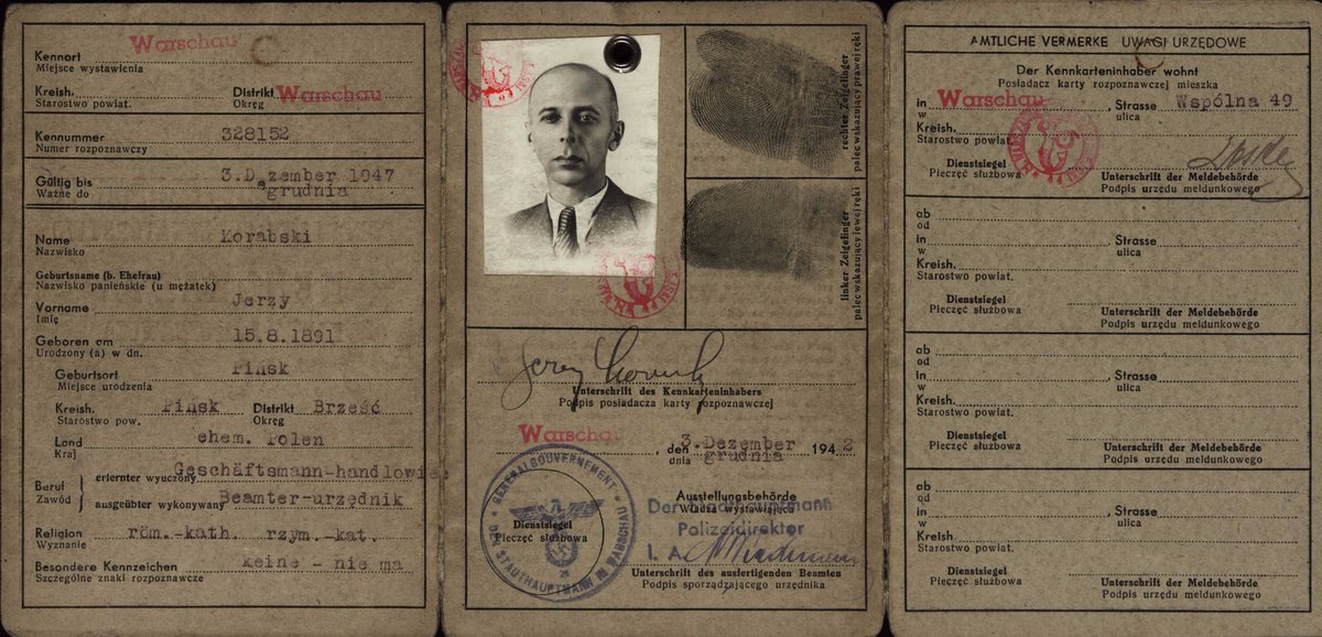 Identity card of Tadeusz Bór-Komorowski (1895-1966) issued on a false name ‘’Jerzy Korabski” by Polish underground 1942